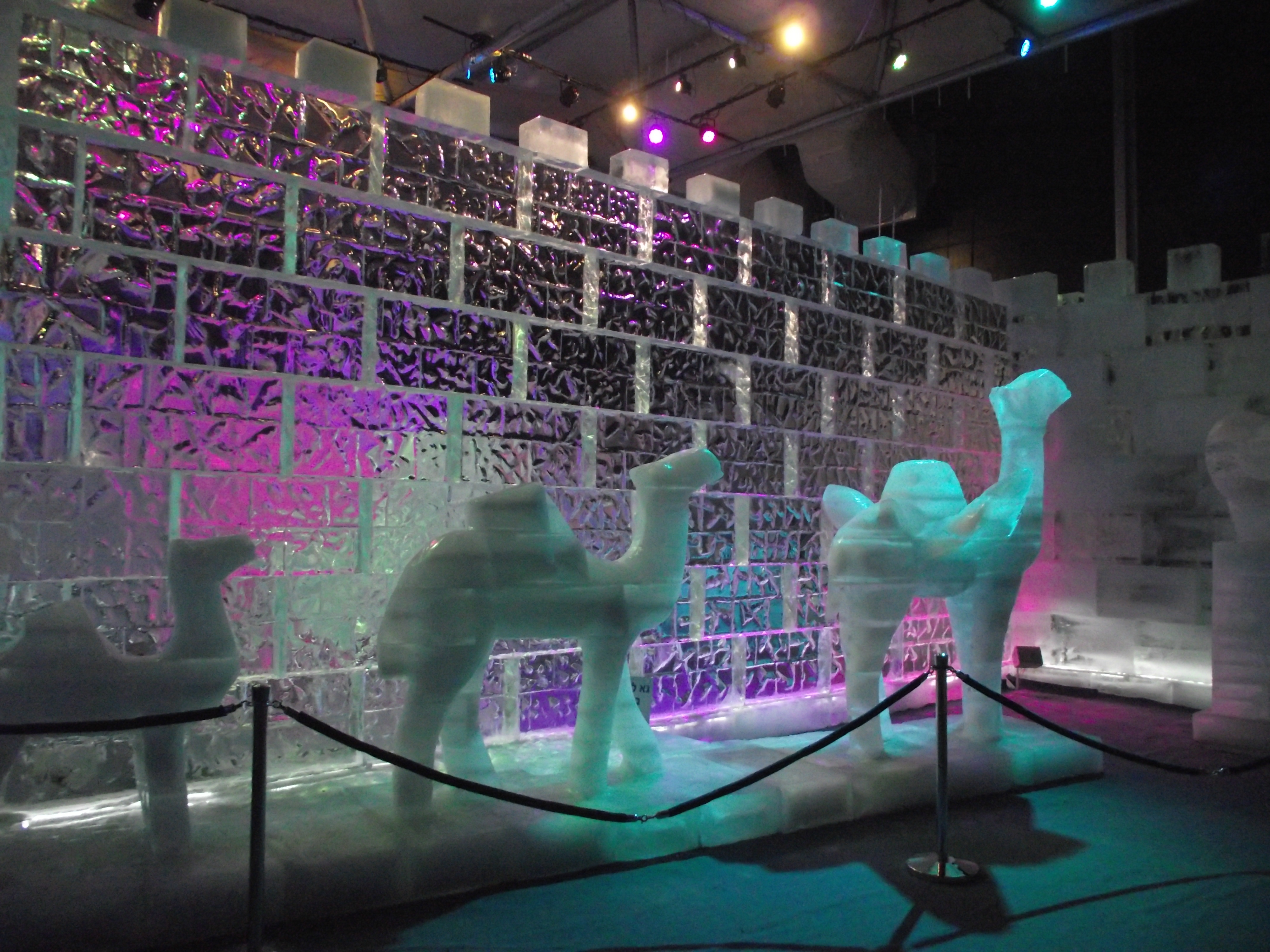 Jerusalem Ice City exhibition.